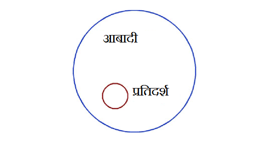 population vs sample